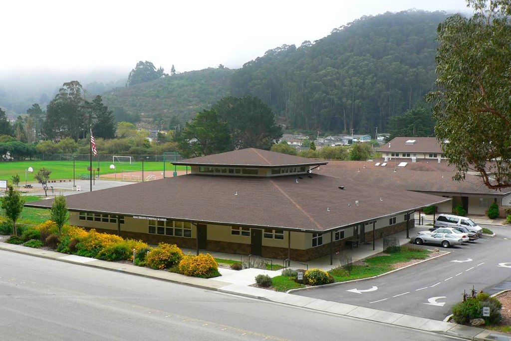 Alma Heights Christian Schools